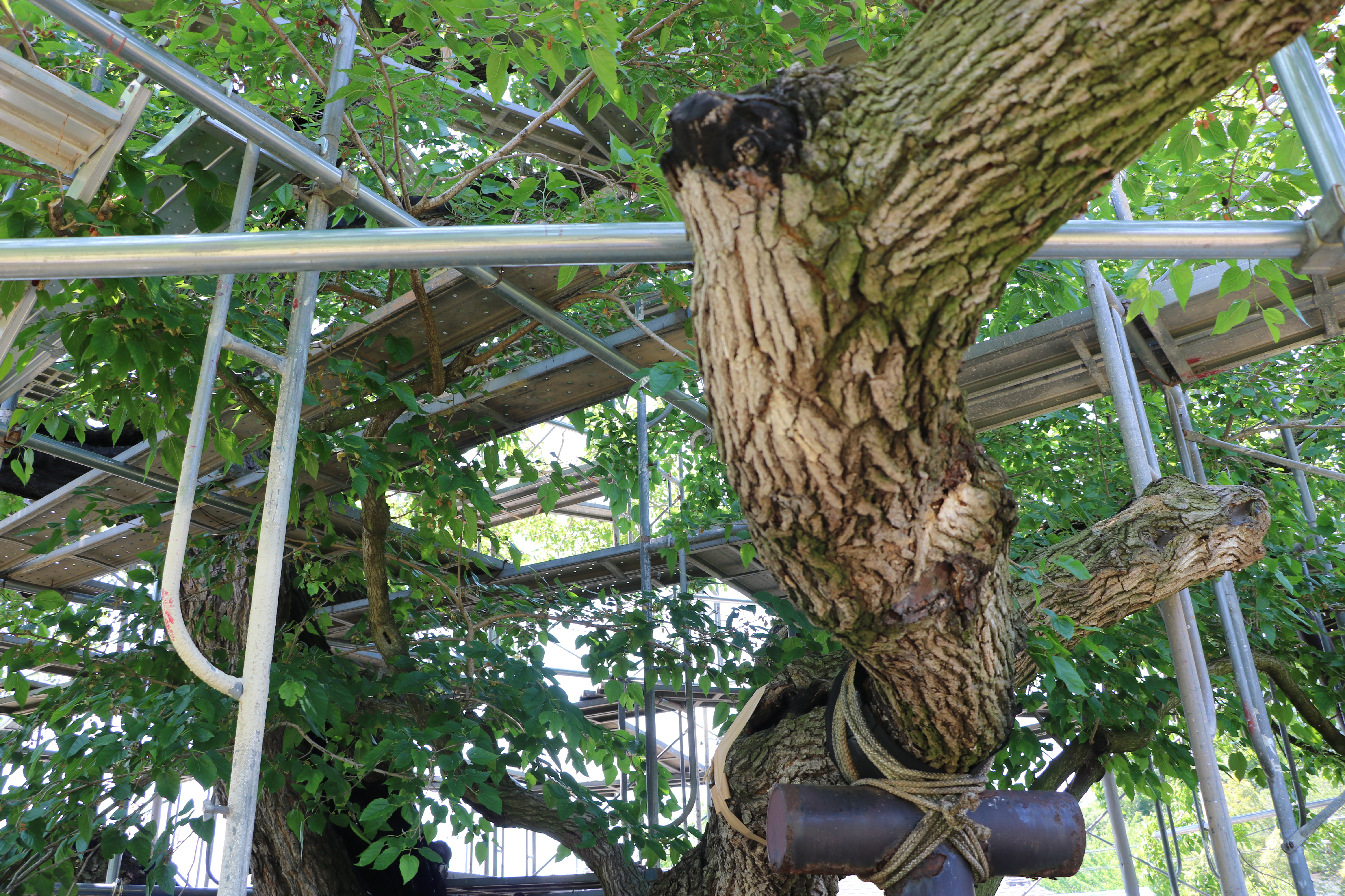 Usune no O-Kuwa The Great Mulberry of Usune